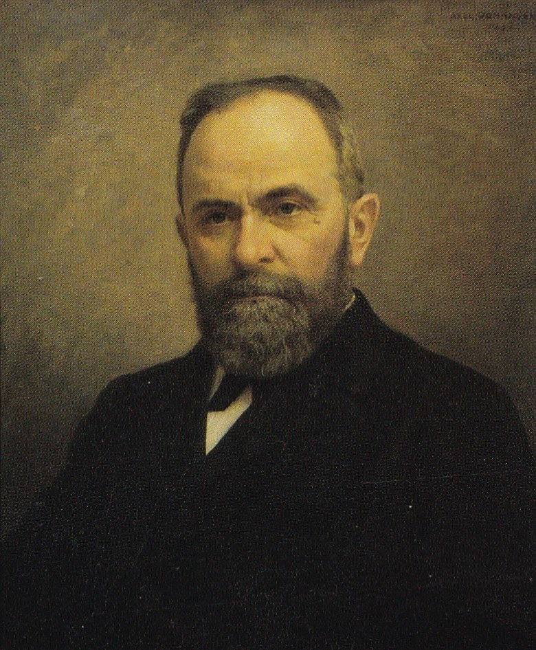 Posthumously painted portrait of Ditlev Torm.